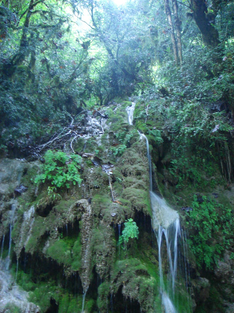 Dagomys, Sochi - Colchis forest